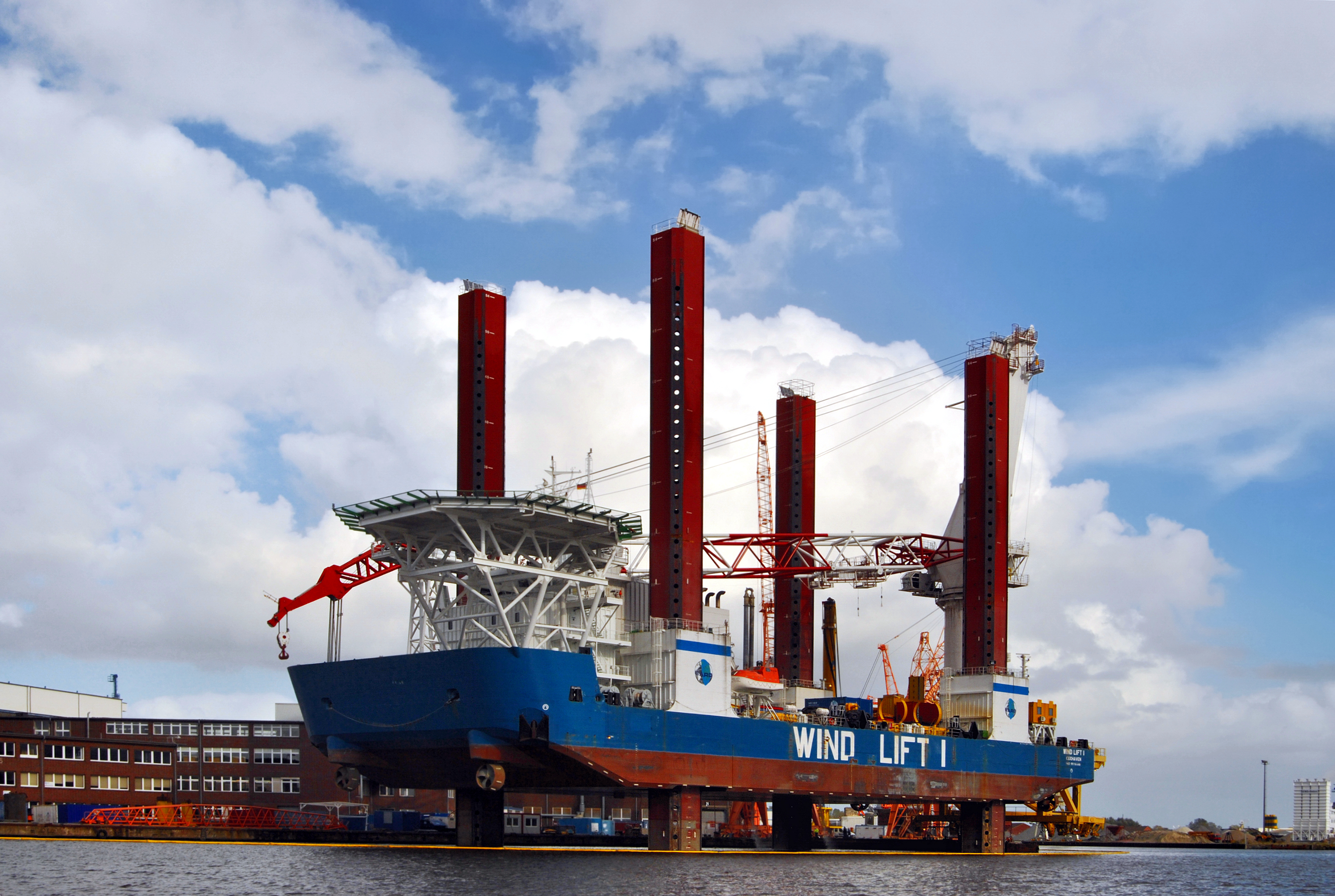 German special crane ship for the setups of offshore wind farms called Wind Lift I in the harbour of Emden call sign: DFIC IMO: 9516686 MMSI: 218319000